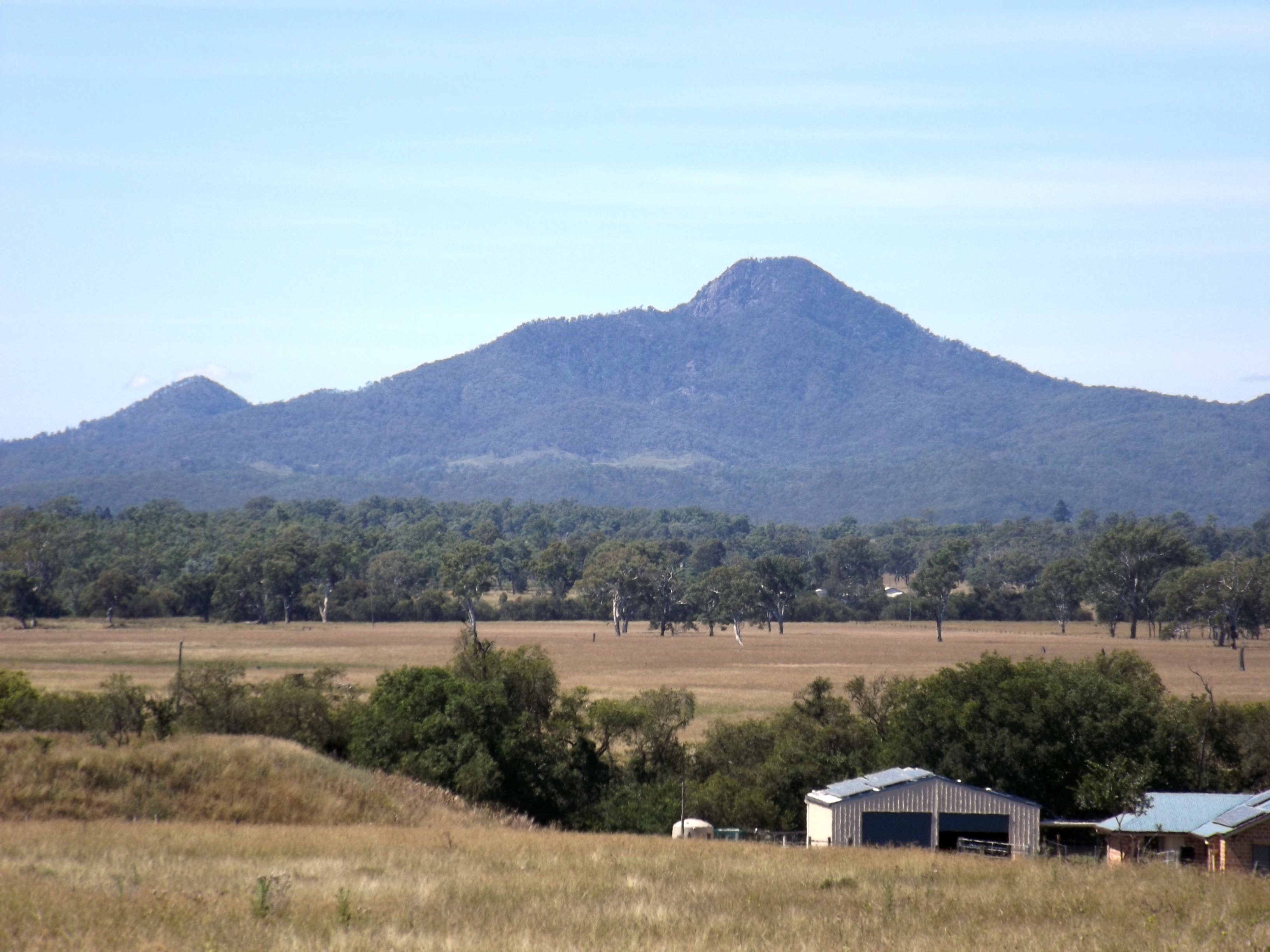 Photo of Flinders Peak in Peak Crossing seen from Mutdapilly Churchbank Weir Road in Mutdapilly, Scenic Rim Region, Queensland, Australia.